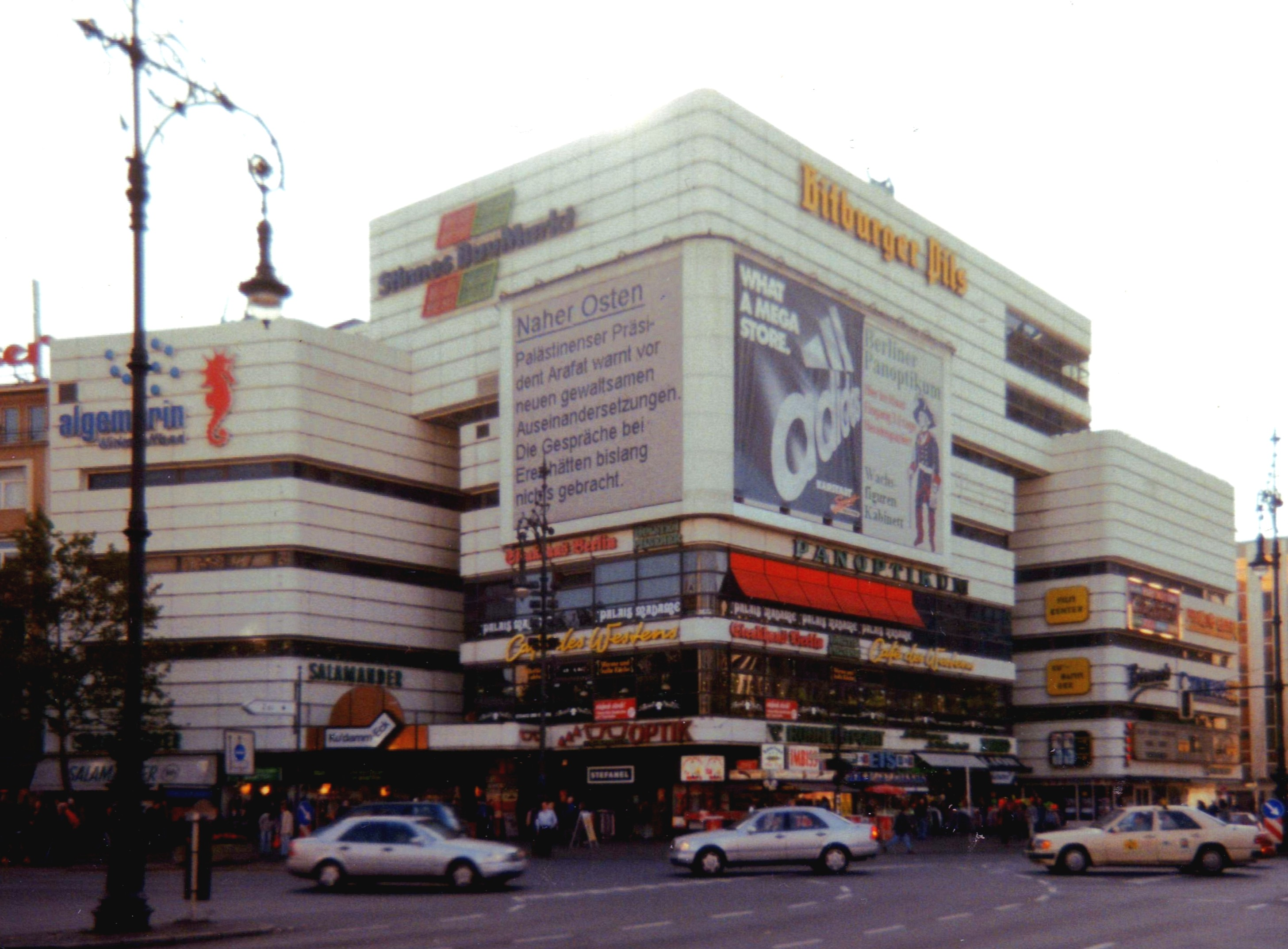 The old "Kudamm Eck" on Kurfürstendamm corner Joachimstaler Straße in Berlin, built 1969-1972, Architect Werner Düttmann. The building was torn down in 1998. A new "Kudamm Eck" was erected at the same site between 1998 and 2000.